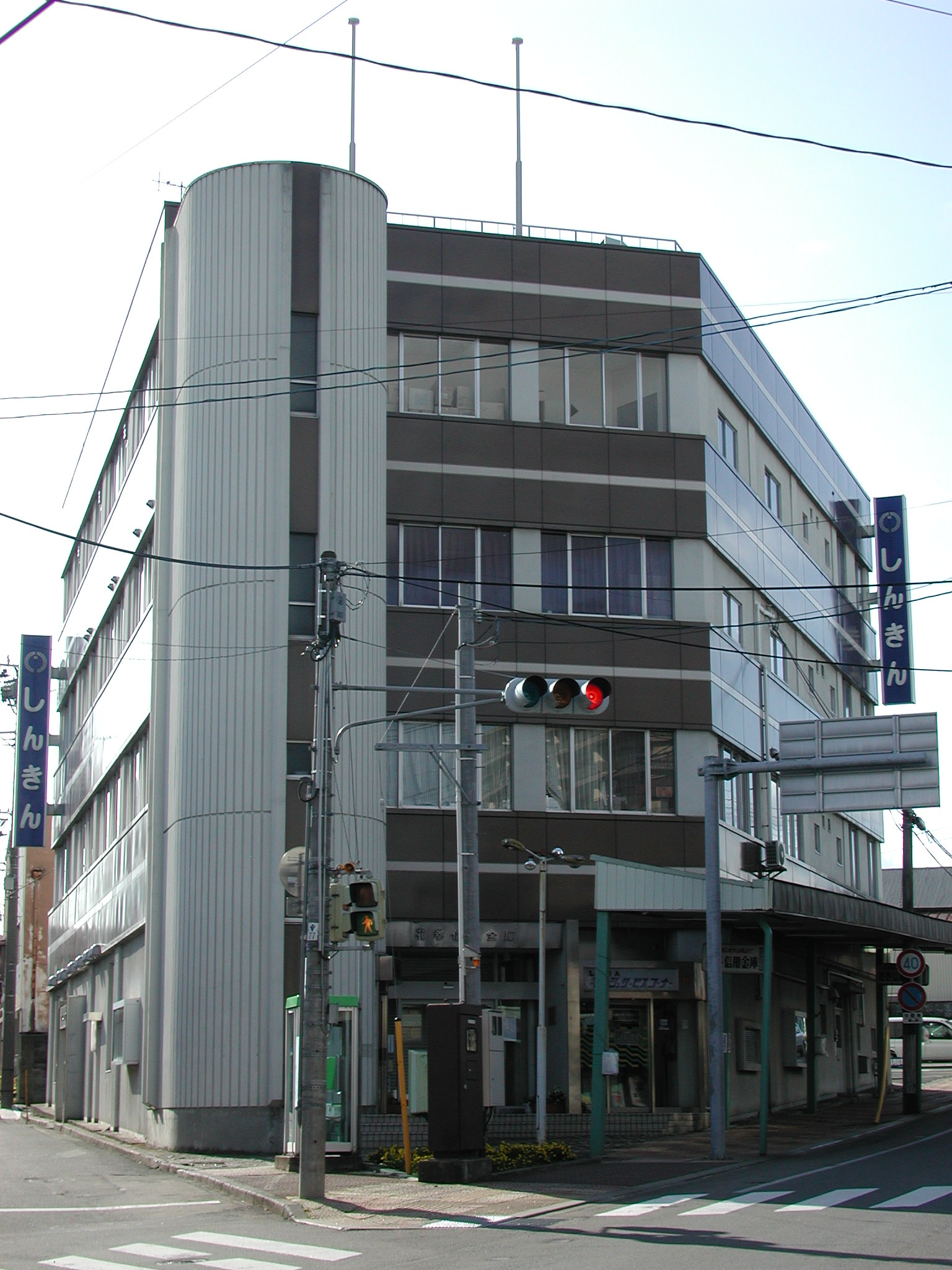 The Hanamaki Shinkin Bank Head Shops